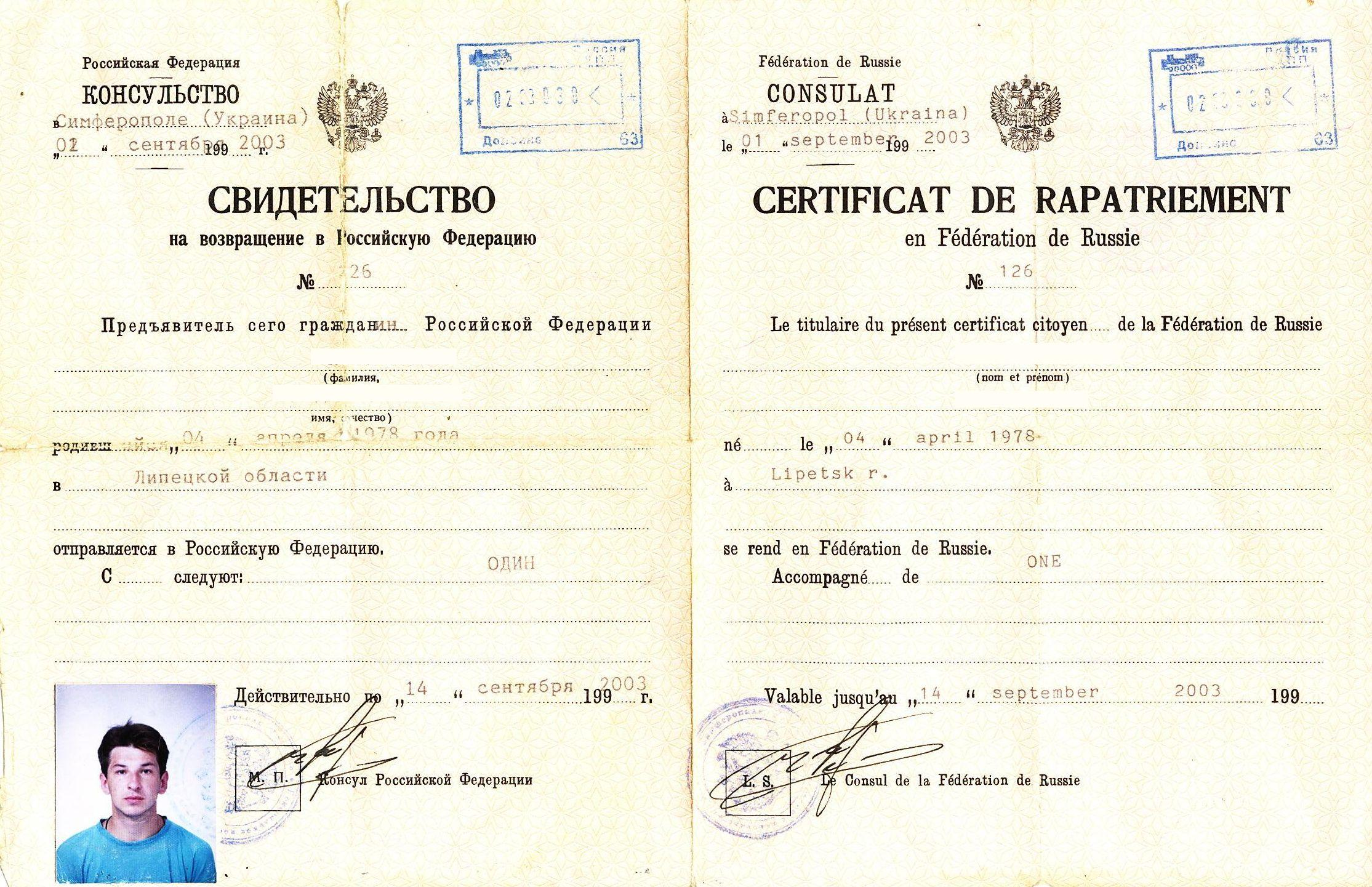 Reentry certificate to the Russian Federation